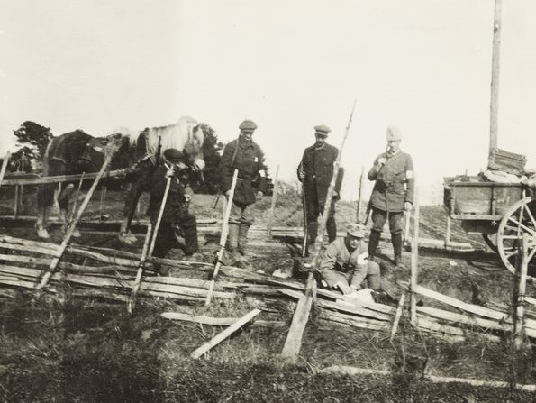 1918 Finnish Civil War: Wounded White soldier being treated in Lempäälä.